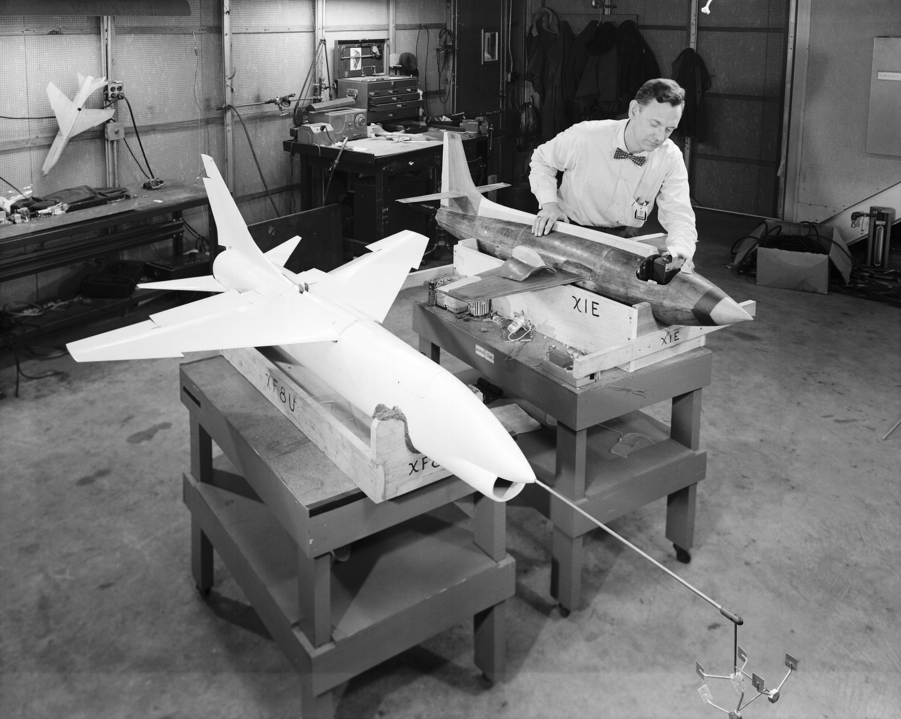 A technician prepares dynamic models of the Bell X-1E and the Vought XF-8U Crusader for wind tunnel testing in 1957. The Crusader was then the Navy's fastest aircraft (maximum speed Mach 1.75 at 35,000 feet).